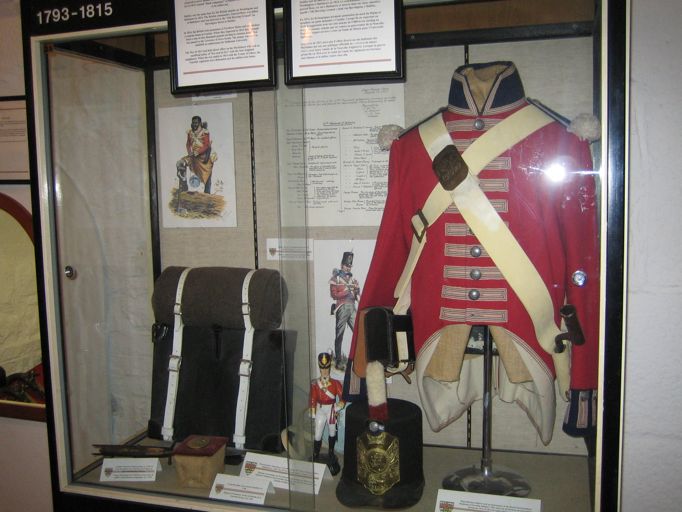 Army Museum in the Cavalier Building inside Halifax Citadel, Halifax, Nova Scotia, Canada. The Army Museum has an extensive collection of Nova Scotian militaria, including uniforms, decorations, edged weapons and firearms.